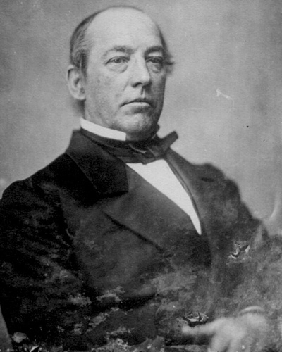 Portrait of United States Secretary of the Interior Caleb Blood Smith.